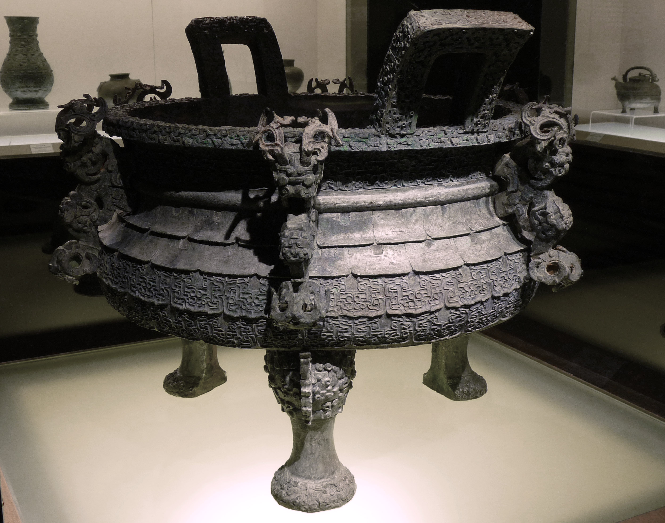 Food vessel ding with interlaced dragons and scale design. Late Spring and Autumn (early VI th century - 476 B.C.). Shanghai Museum